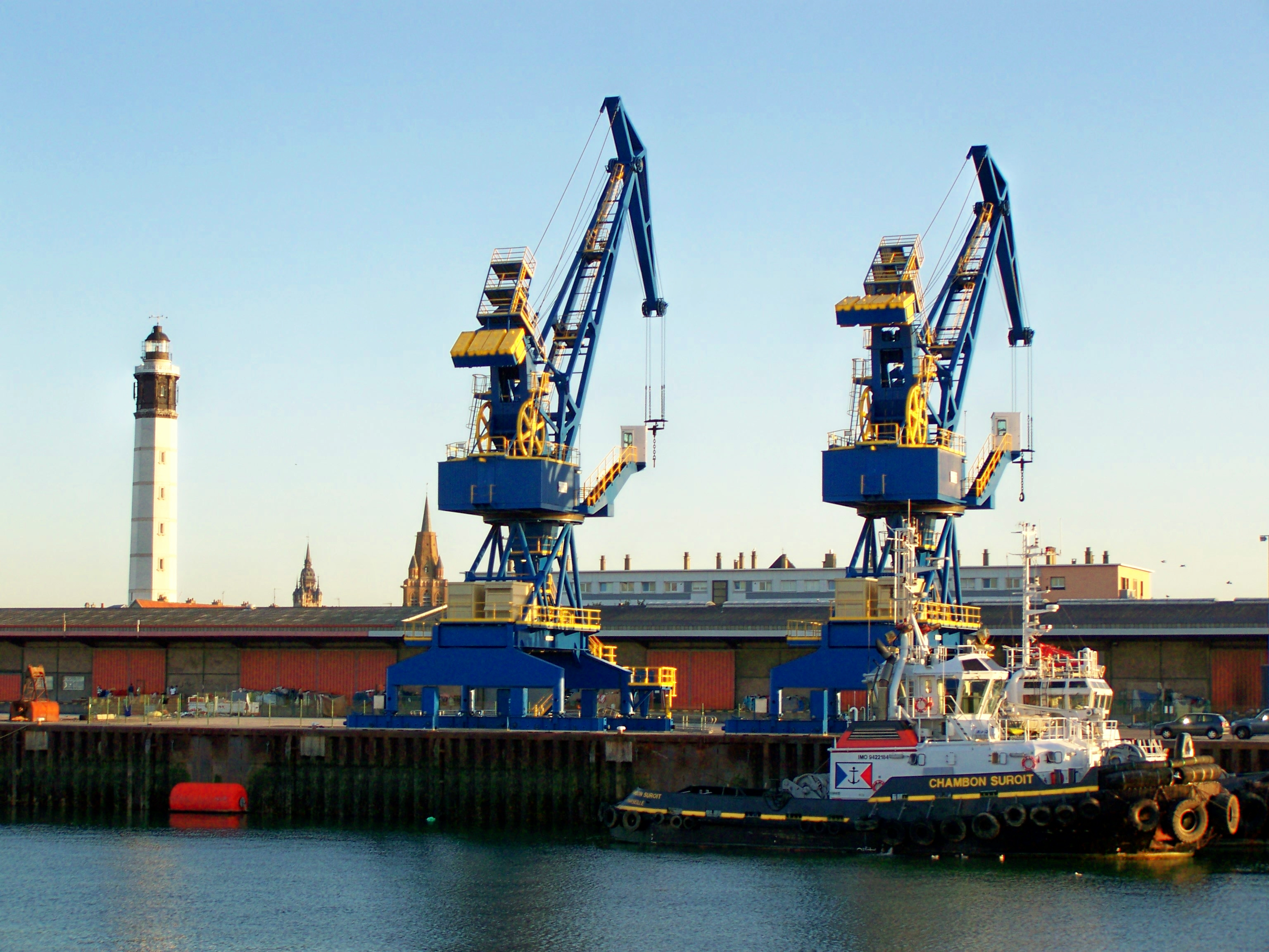 Cranes in the port of Calais, France, with Calais lighthouse in background